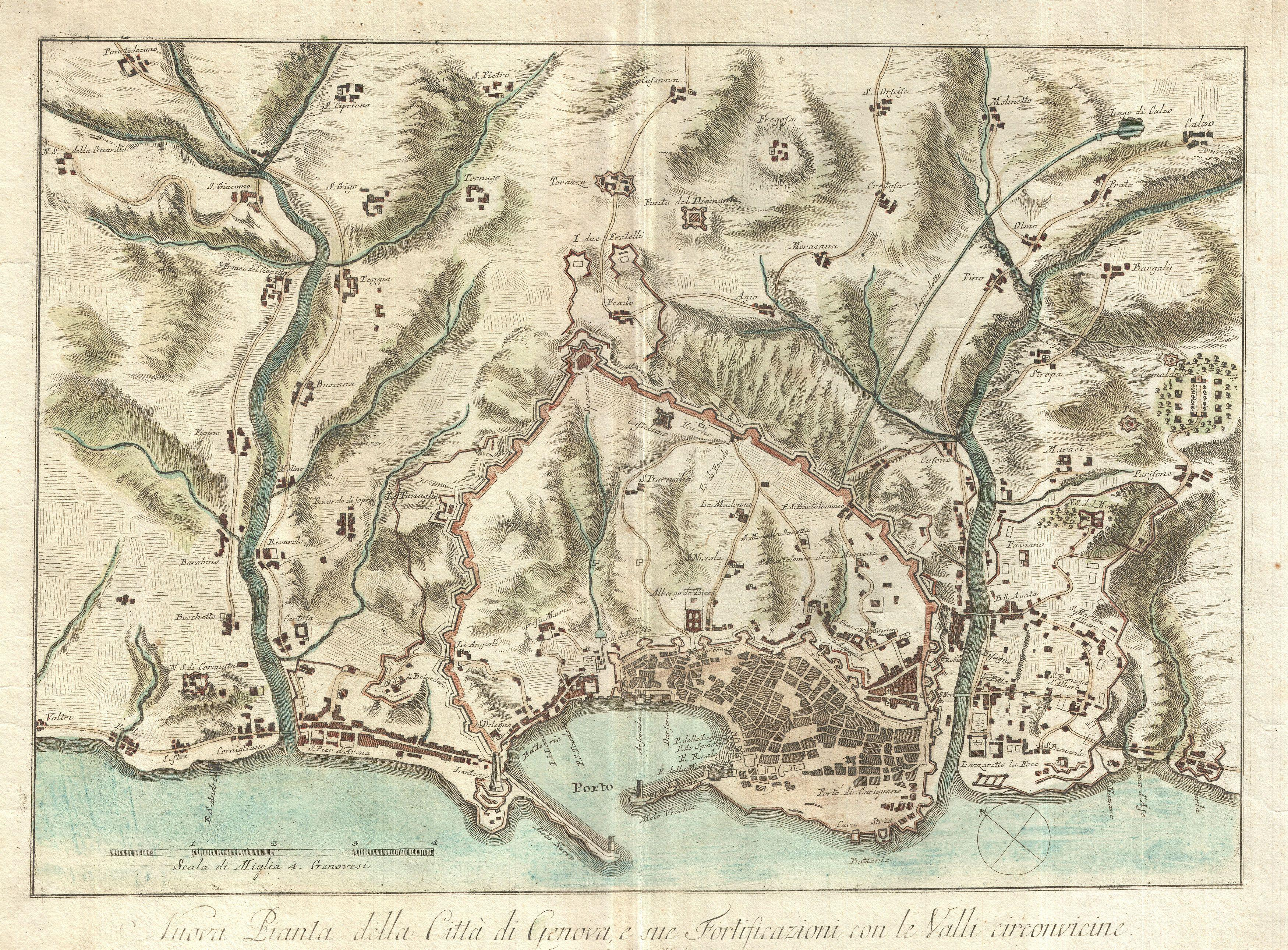 An beautifully engraved and extremely obscure 1800 map of Genoa or Genova, Italy. Covers the walled center of Genoa and parts of the surrounding countryside as far as Voltri in the west and Calzo in the east. Detailed to the level of individual buildings with a number of churches, monasteries, convents and private villas noted. The engraver, Bardi, is best known for his intense landscapes and engravings of classical sculpture where he is a master of rendering three dimensional concepts on a two dimensional plane. Bardi's translation of this skill into the cartographic medium is exhibited here in his superb freehand rendering of topographical detail. Bardi's work is extremely scarce and we have no evidence his work ever appearing on the market - though a few maps, including this one, do appear in a couple of major institutional collections. Please take the time to admire the masterful topographical engraving as it is among the finest and most artistically sophisticated we have seen.